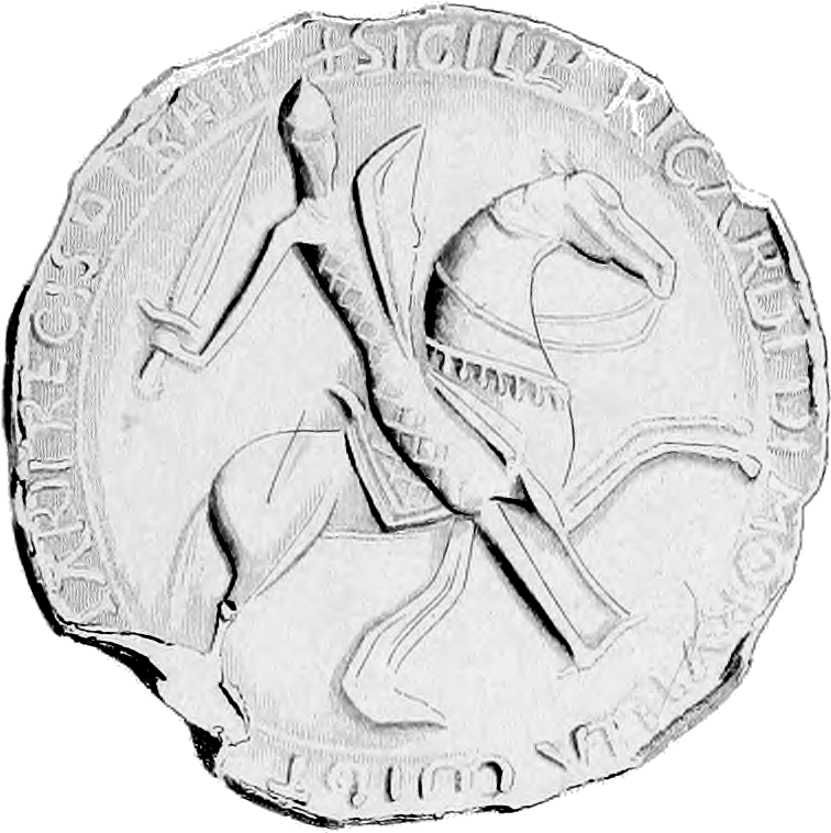 Seal of Richard de Morville, Constable of Scotland (died 1189/1190).